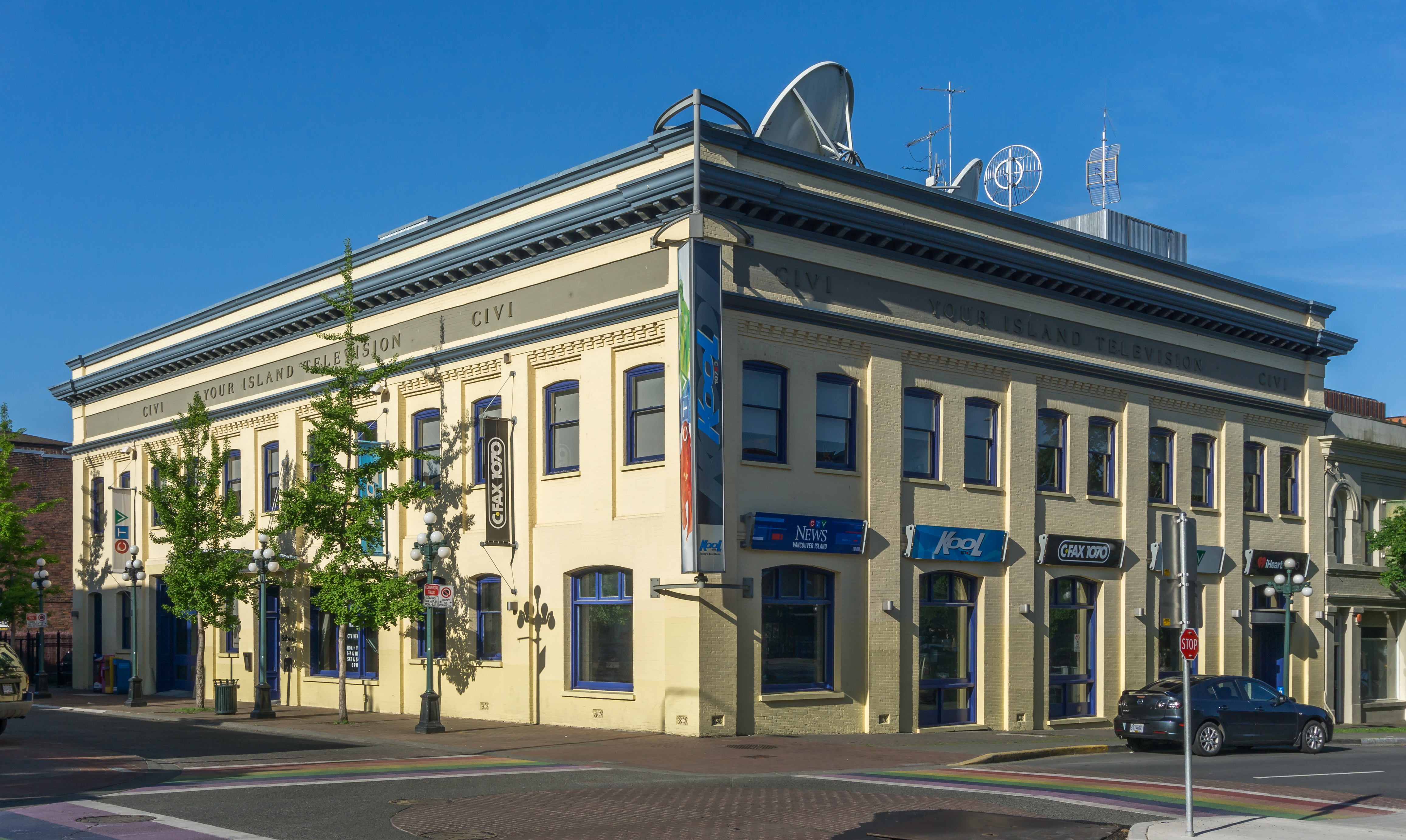 Your Island Television, Victoria, Canada